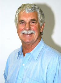 Prof. Lindsay B Collins